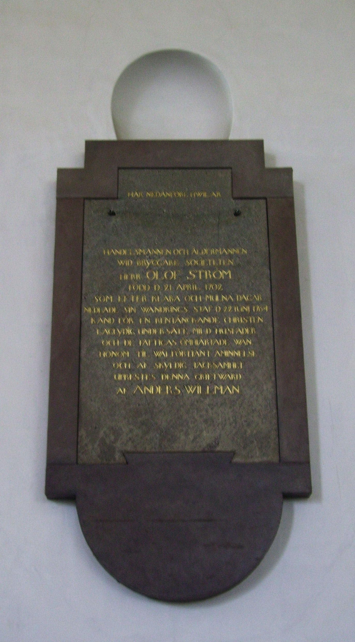 Picture of Olof Ström's (1702-1764) grave at Katarina kyrka in Stockholm